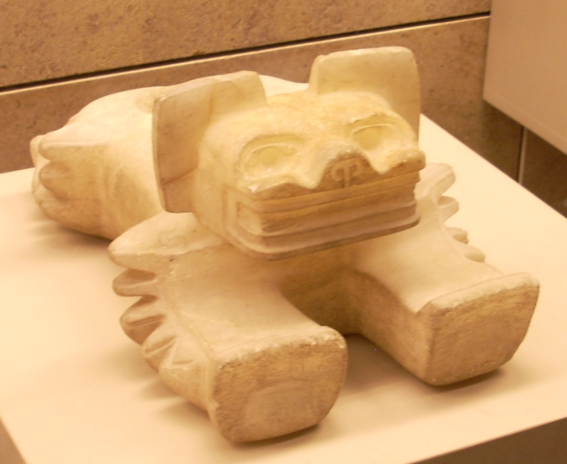 Onyx jaguar sculpture from Teotihuacan, possibly a ritual container to receive sacrificed human hearts.